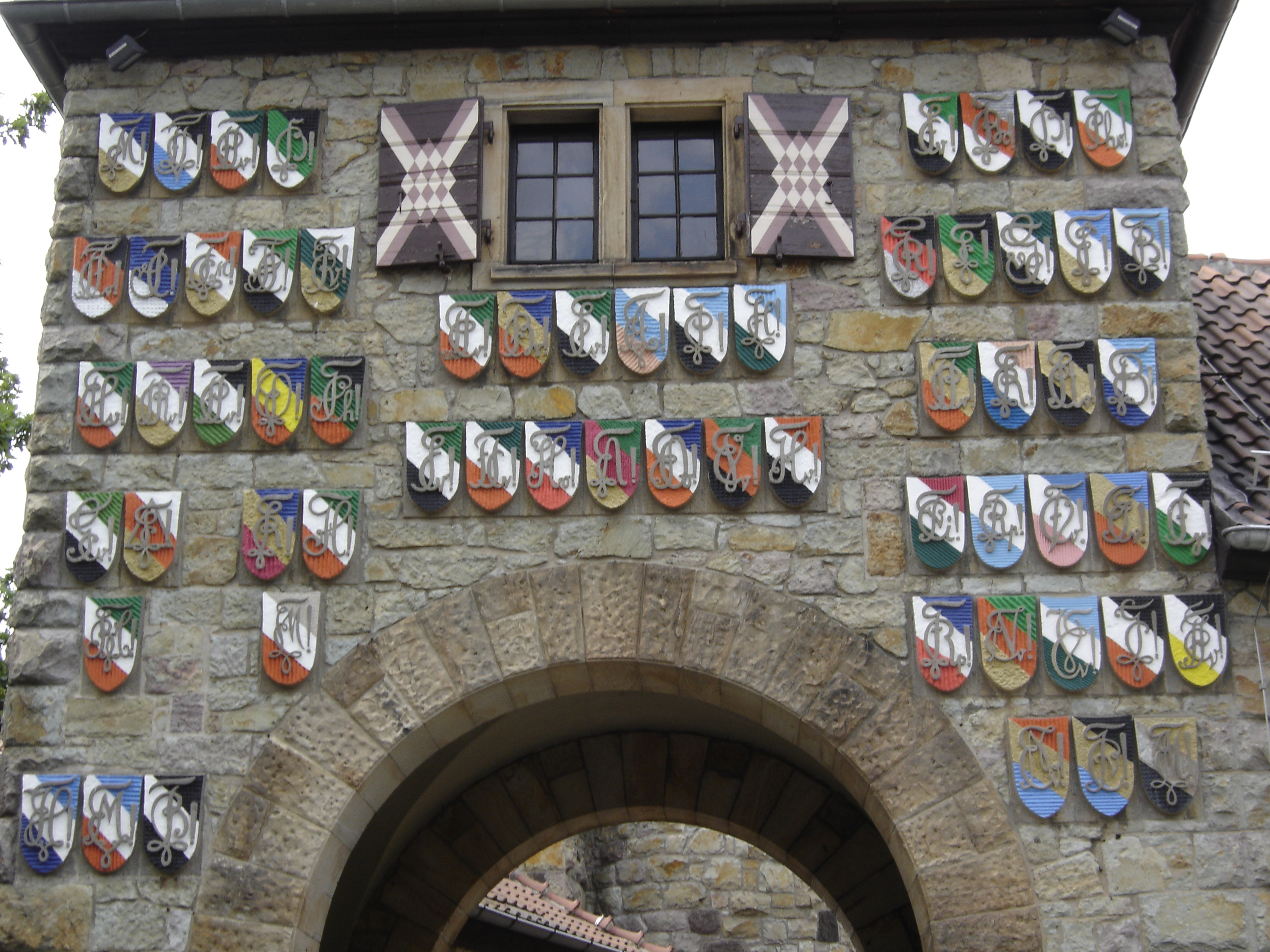 Student corporation signs Wachenburg, Weinheim, Germany